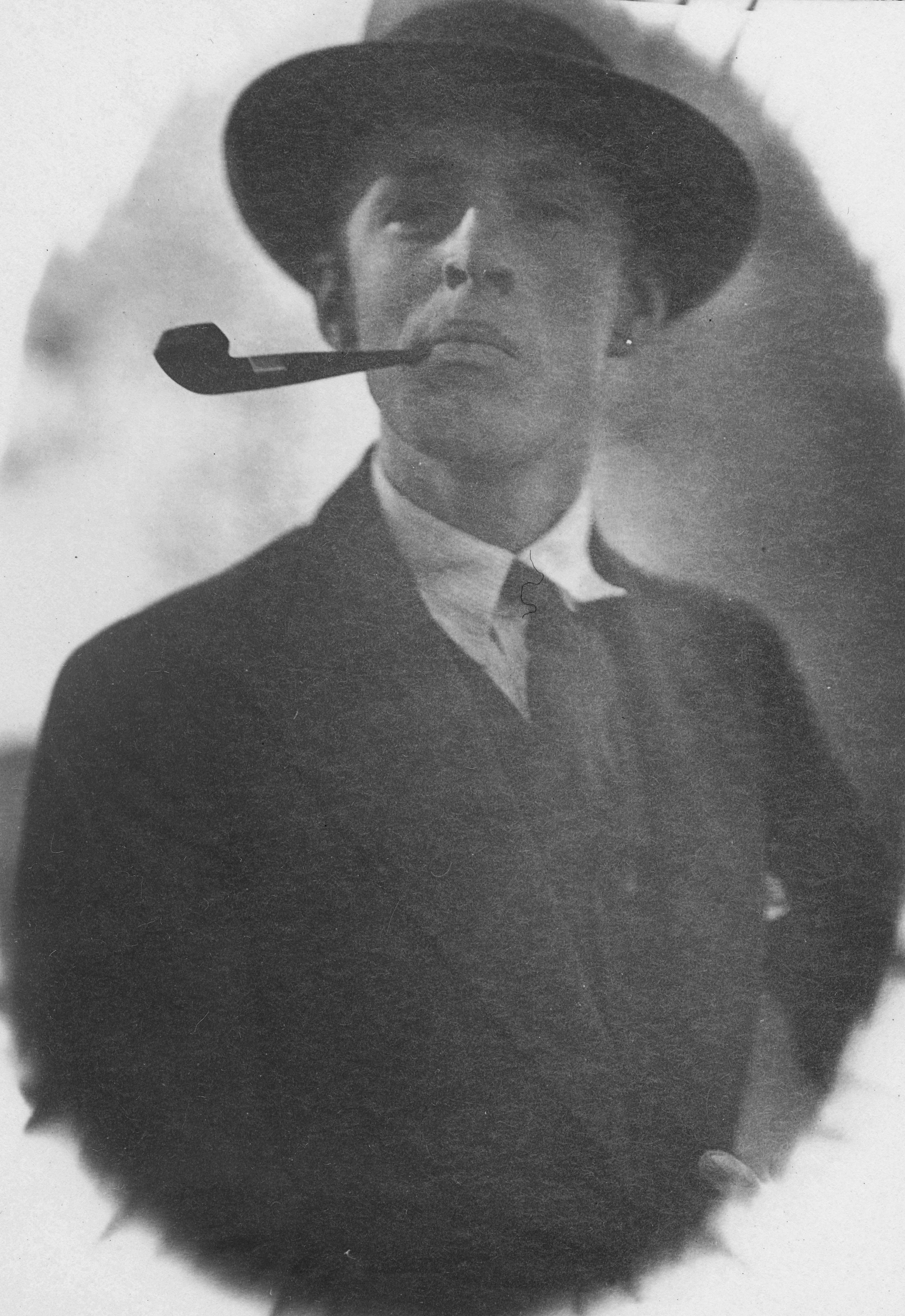 Portrait of archaeologist Sverre Marstrander c. 1932. Rotated, cropped, B/W